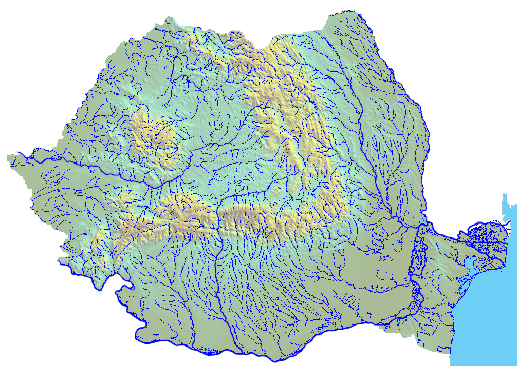 Romania hydrographic network